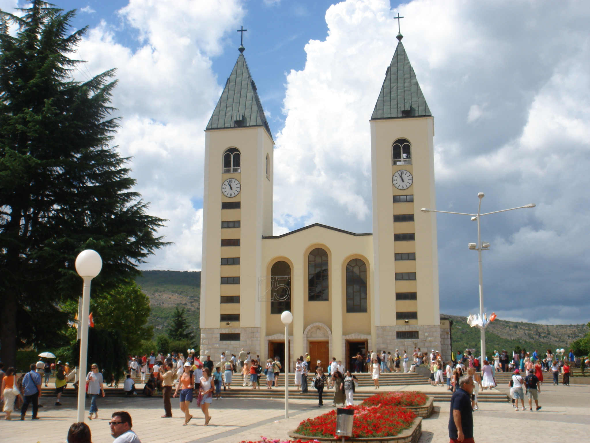 St. James Church in Međugorje.